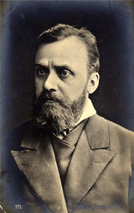 Gleb Uspensky (1843-1902), Russian writer, around 1880